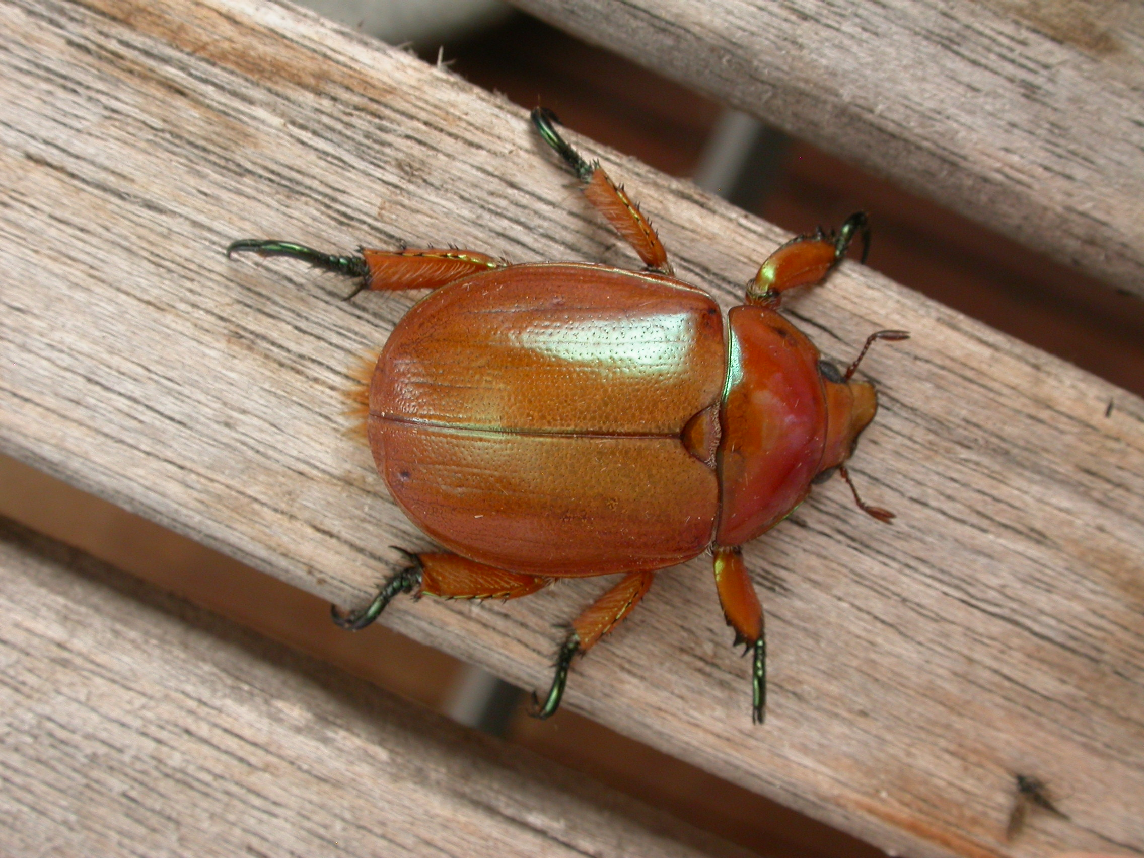 Anoplognathus viriditarsis Leach 1815, to MV light, Aranda, ACT, 22/23 December 2008